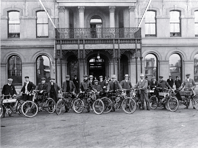 Start for the run to West Coast Road, Gorge bridge, Oxford, leaving from Warner's Hotel.